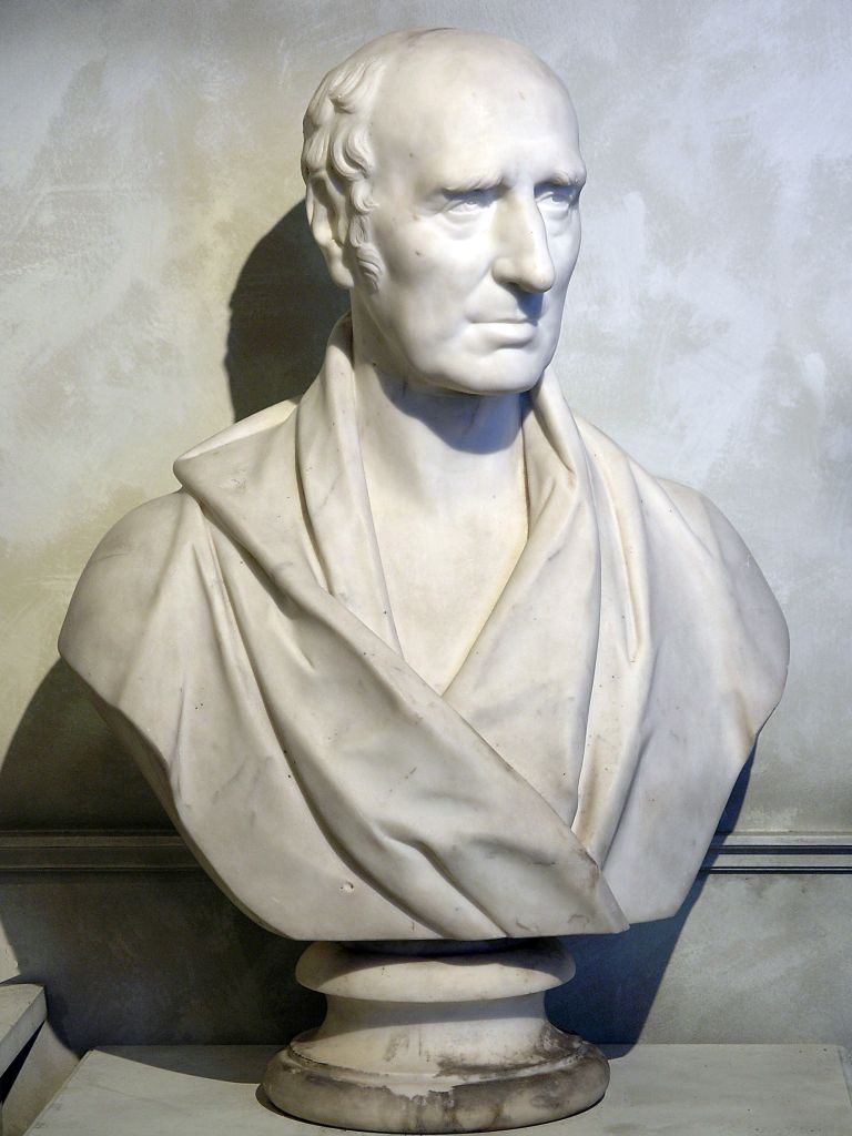 Marble Bust of William Murdock by E. G. Papworth Editing undertaken: Unsharp Mask, Shadows/Highlights